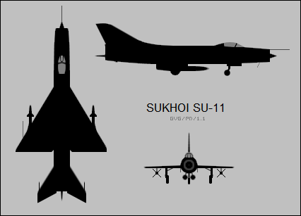 Su-11